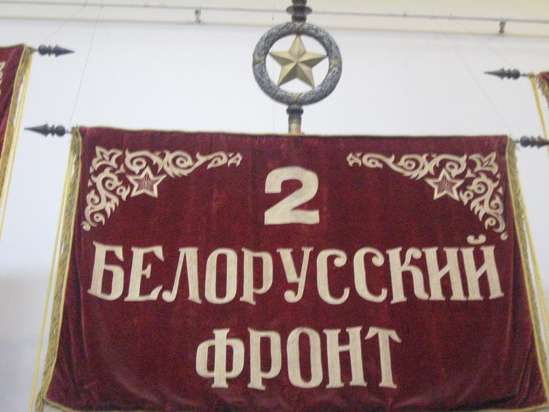 Colours of the 2nd Belorussian Front